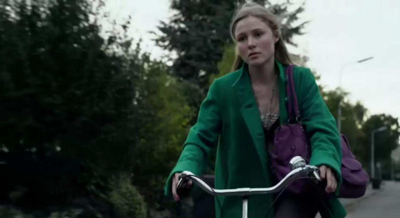 Dutch actress Sigrid ten Napel in VARA TV series Overspel (2013)